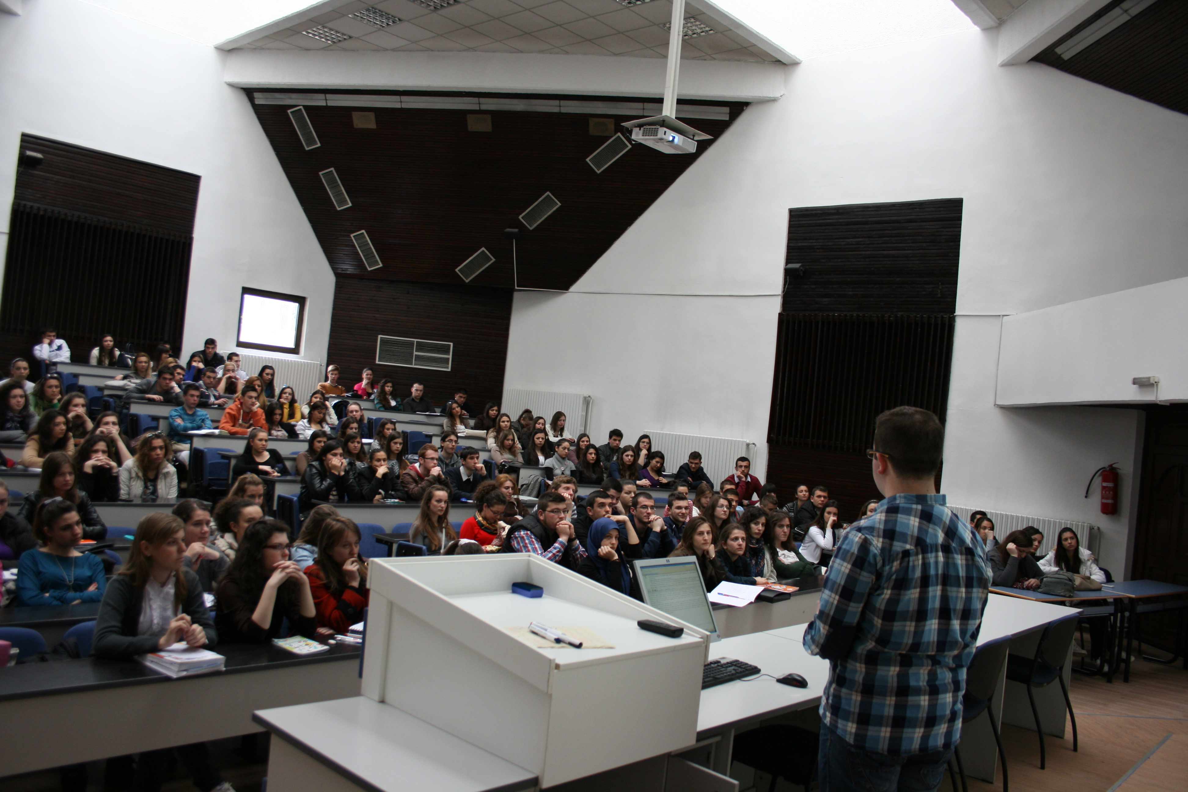 A short presentation about the basics of creating an article on